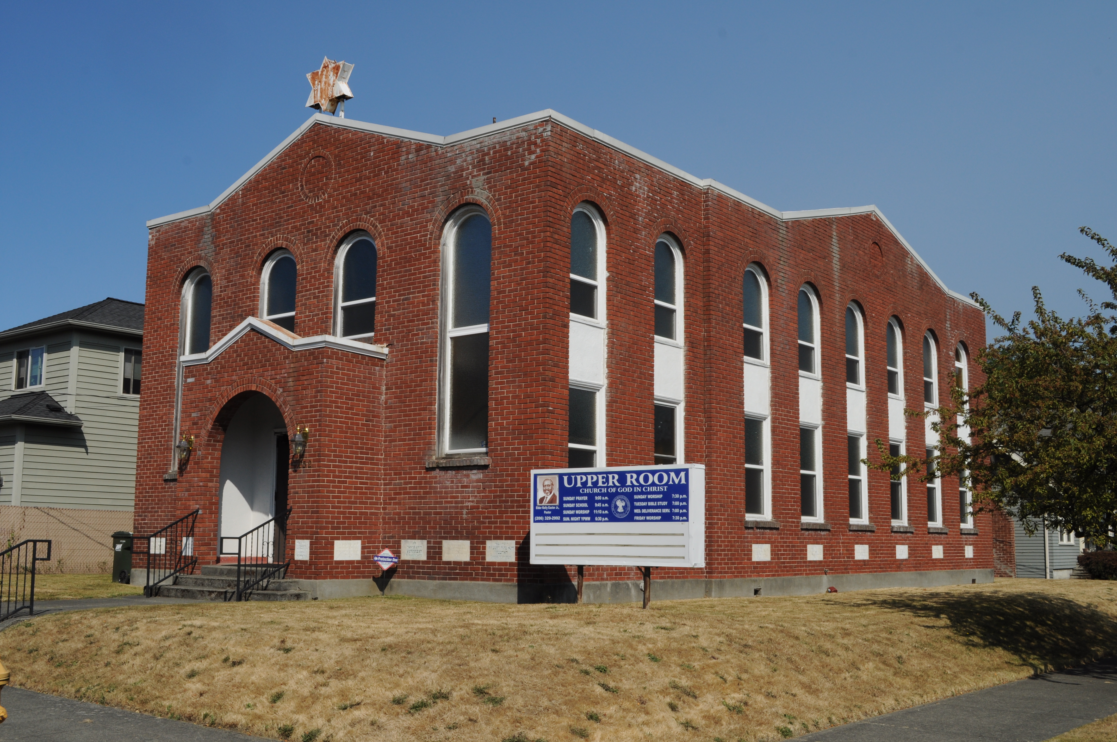 Upper Room, 152 26th Avenue, Seattle, Washington, USA. Now a Church of God In Christ (COGIC) church, originally the Machzikay Hadath synagogue (now merged into Bikur Cholim Machzikay Hadath).